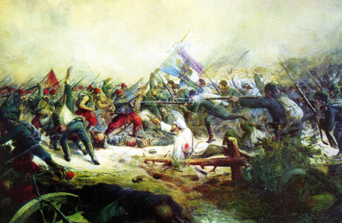 Picture of the historical painting of the battle by the town of Stara Zagora (Eski Zaara) in 1877. Painted by Bulgarian artist Peter Morozov in 1909. State Military Museum, Sofia (Bulgaria)